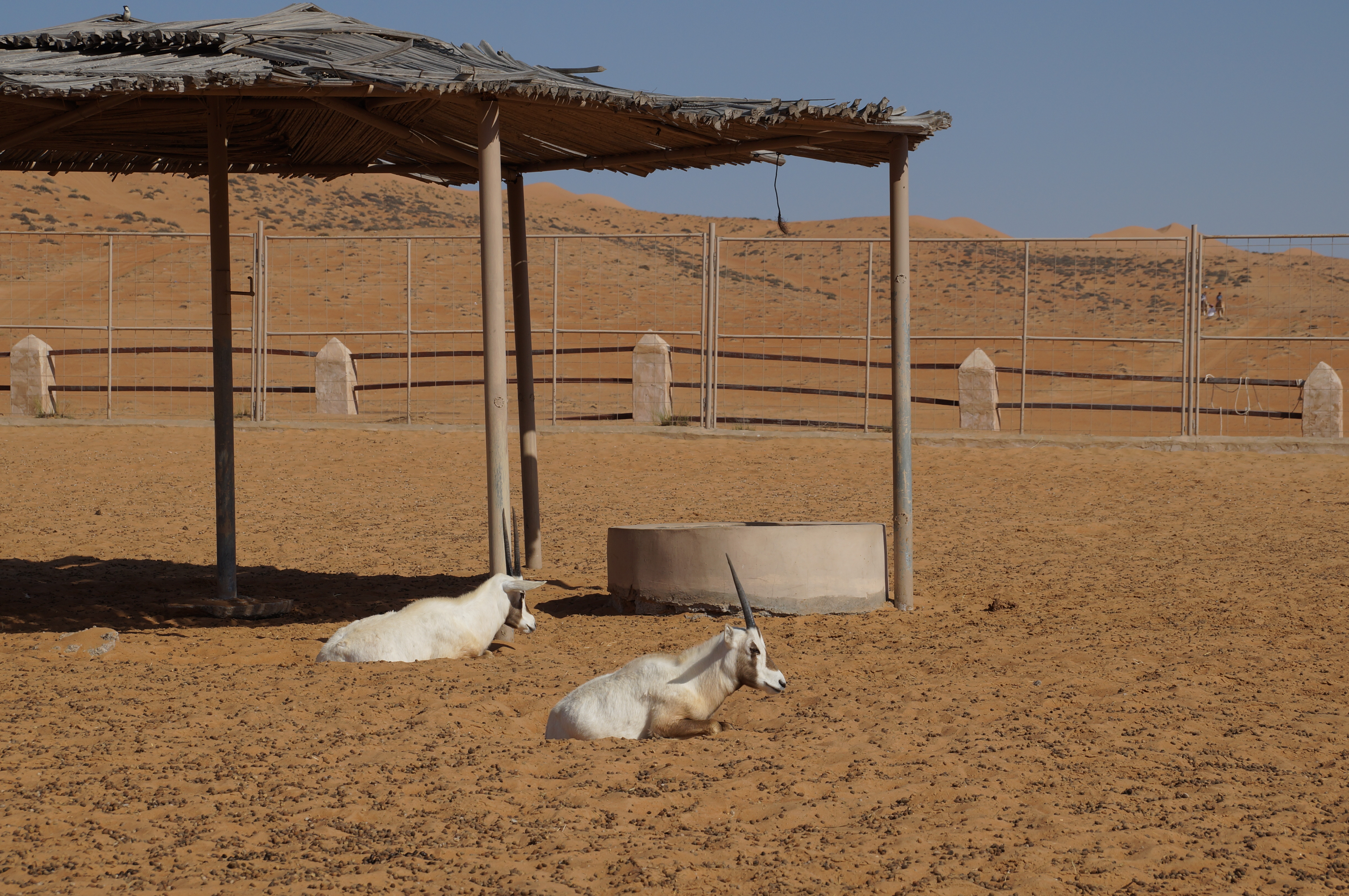 Arabian Oryx at an enclosure in the Wahiba Sands, Oman